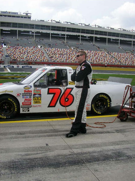 Photo of Ryan Hackett Taken at Lowe's Motor Speedway before the North Carolina Education Lottery 200.